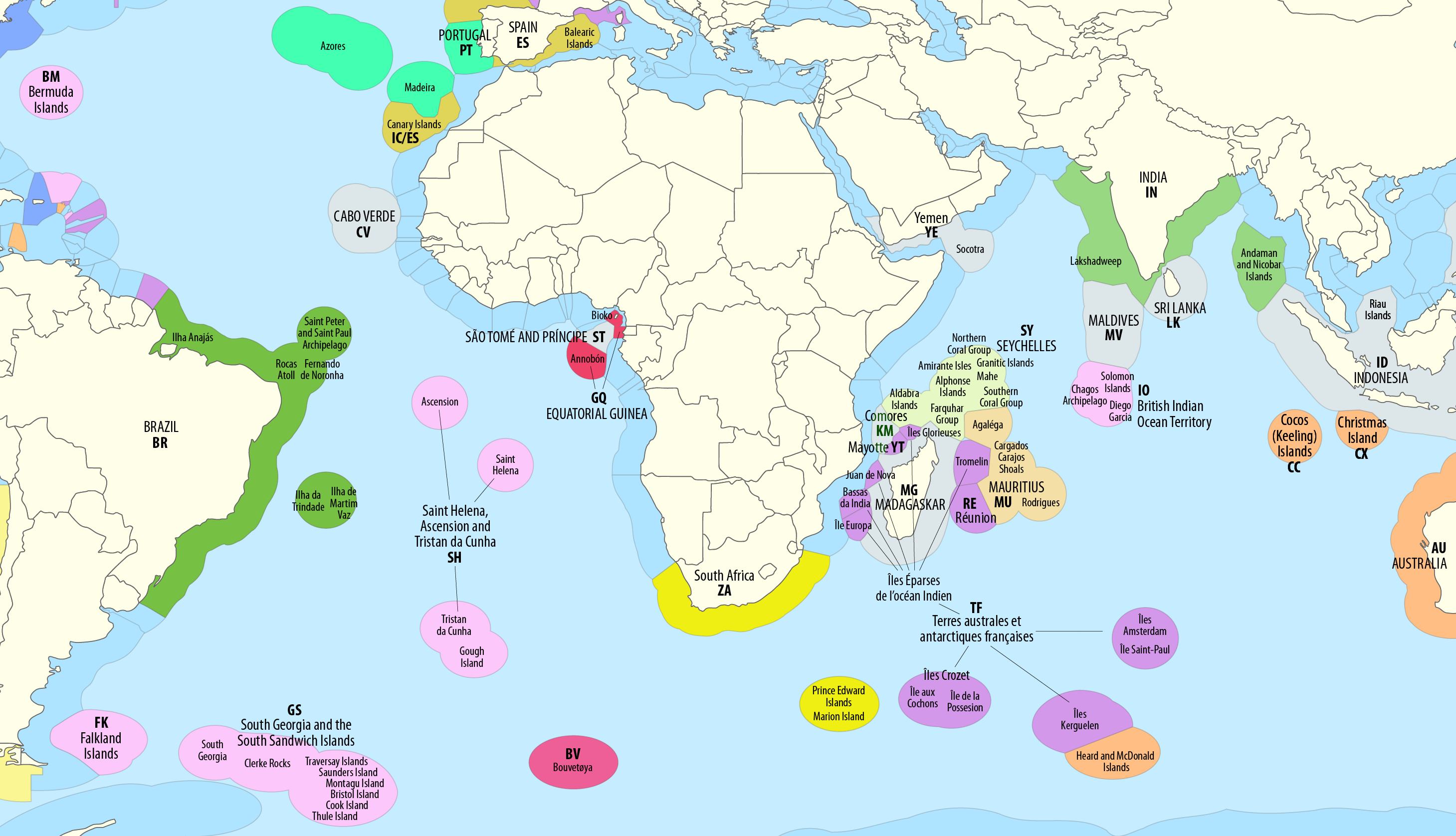 Territorial waters (EEZ) of the Atlantic and Indian Ocean